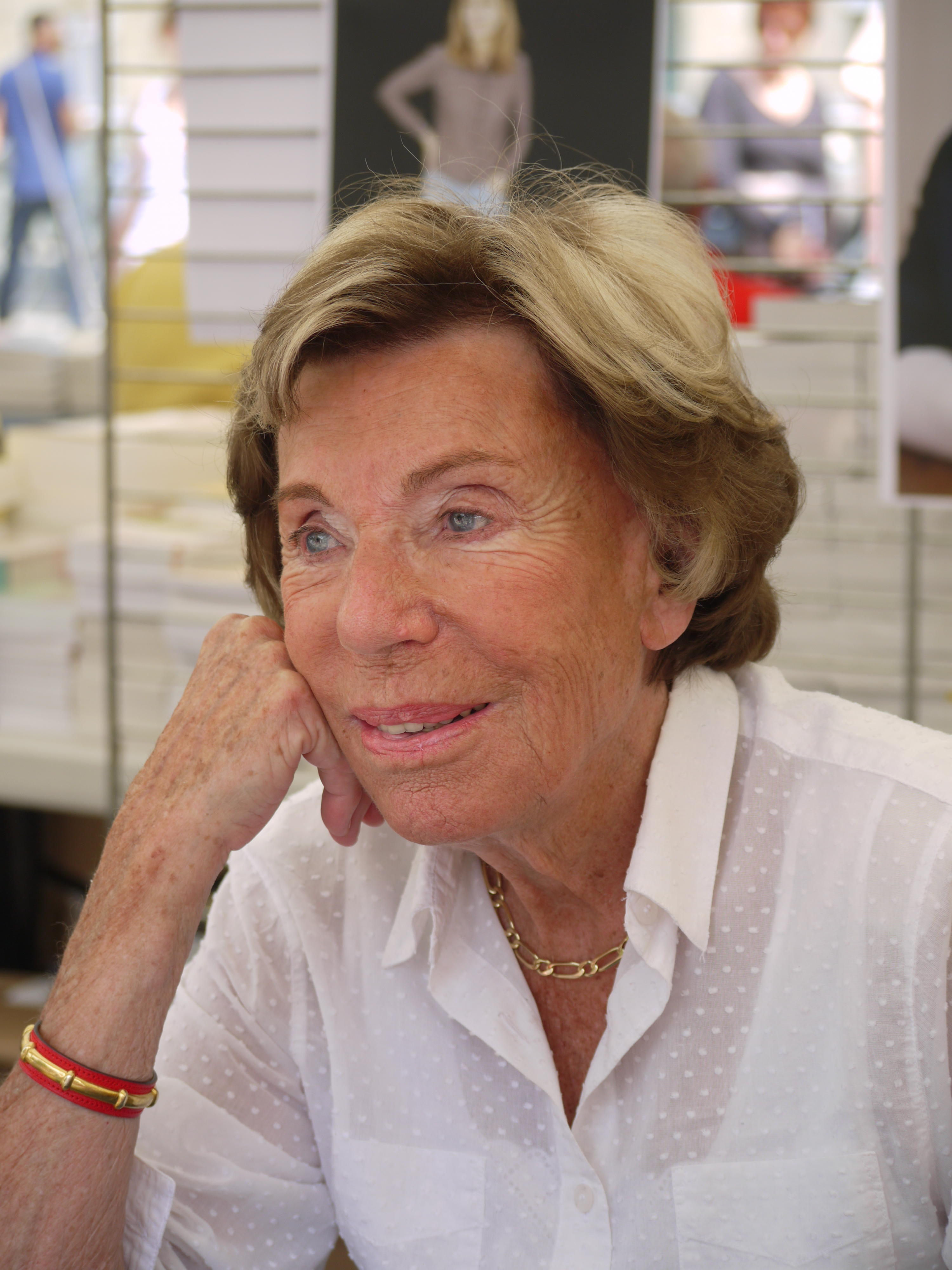 Comédie du Livre 2010 edition of Montpellier